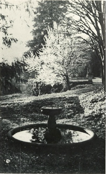 The fountain in the '30